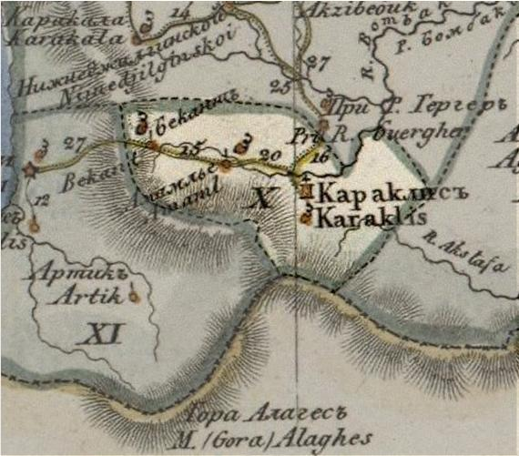 Bambak in the map of Caucasus